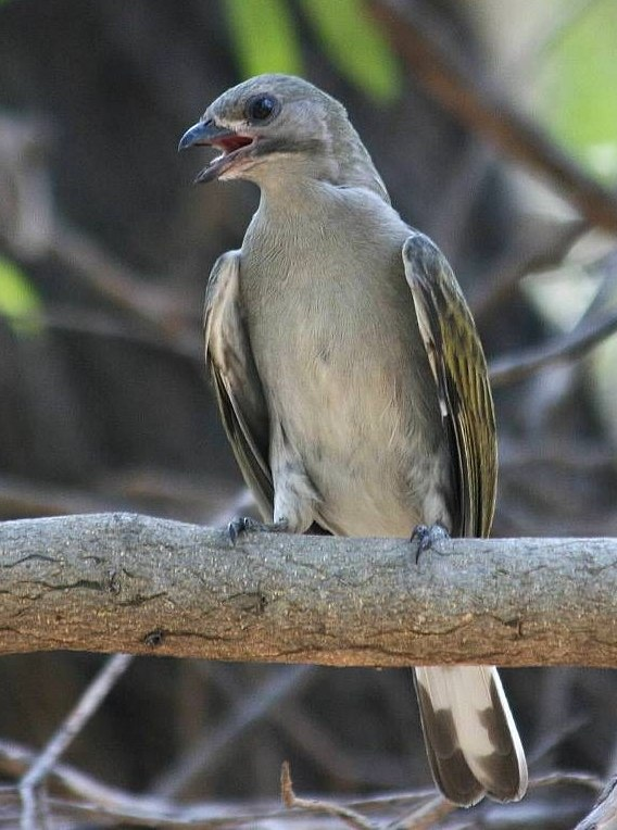 Lesser Honeyguide at Berg-en-Dal, Kruger National Park, South Africa